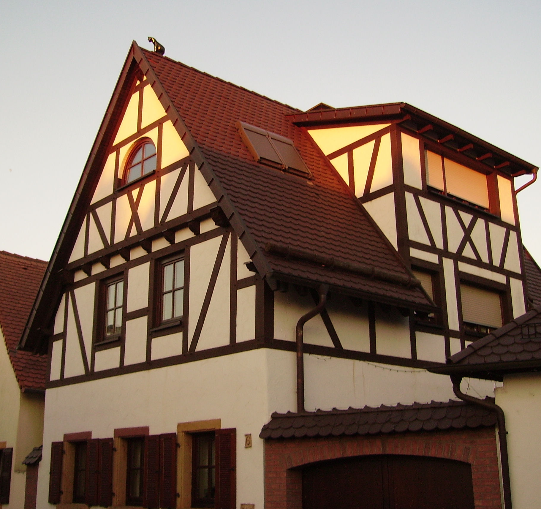 house in Schauernheim, Germany